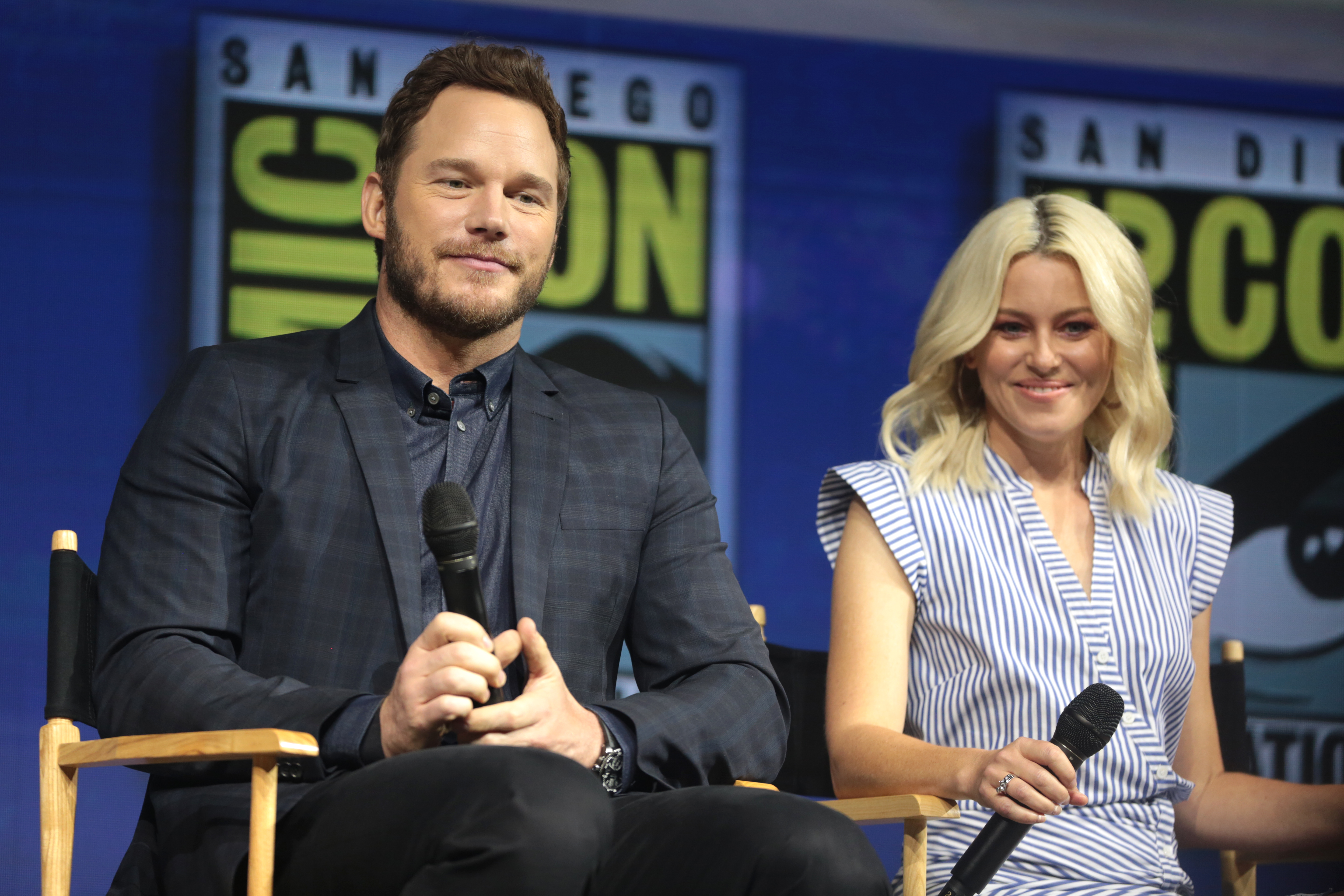 Chris Pratt and Elizabeth Banks speaking at the 2018 San Diego Comic Con International, for "The Lego Movie 2: The Second Part", at the San Diego Convention Center in San Diego, California.